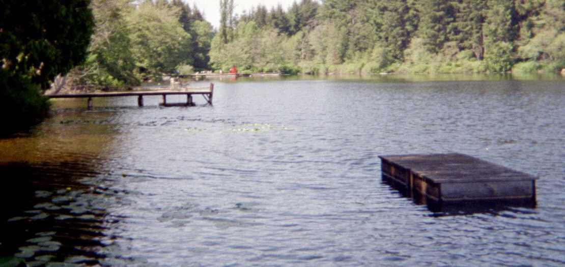 Picture taken by me May 2004 (from family property).